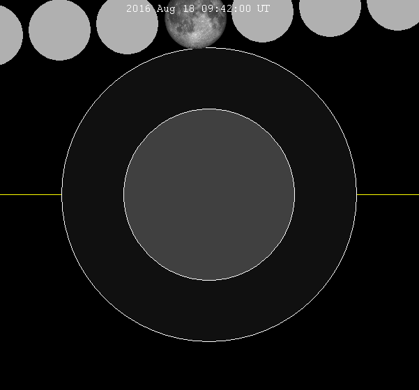 August 2016 lunar eclipse chart of moon's penumbral lunar eclipse path through the earth's shadow. thumb